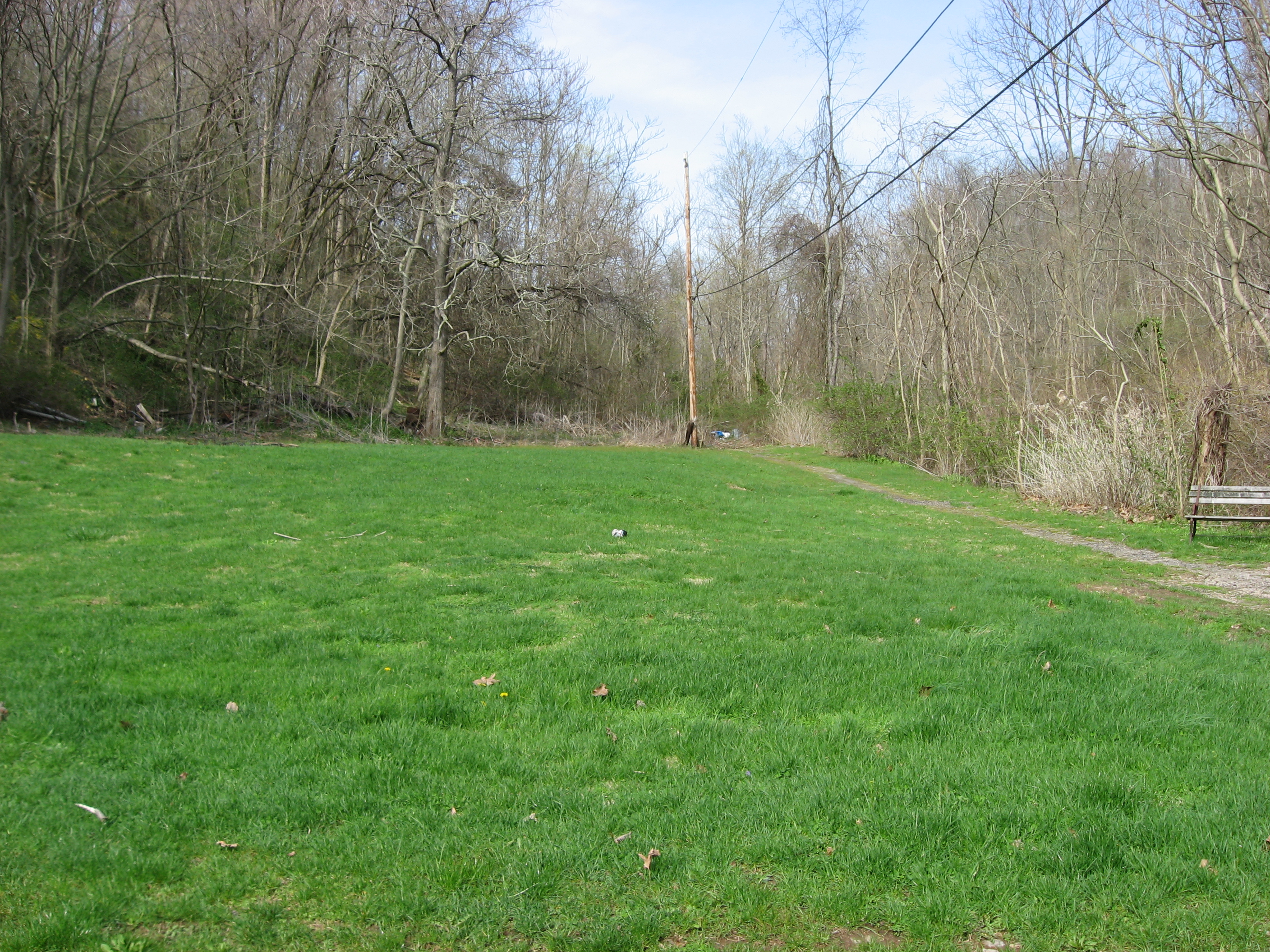 Overview of the Locus 7 Site, located above Downers Run north of Fayette City in Washington Township, Fayette County, Pennsylvania, United States. The Locus 7 Site is an archaeological site that was once a village of the Monongahela culture of Native Americans. It is listed on the National Register of Historic Places.